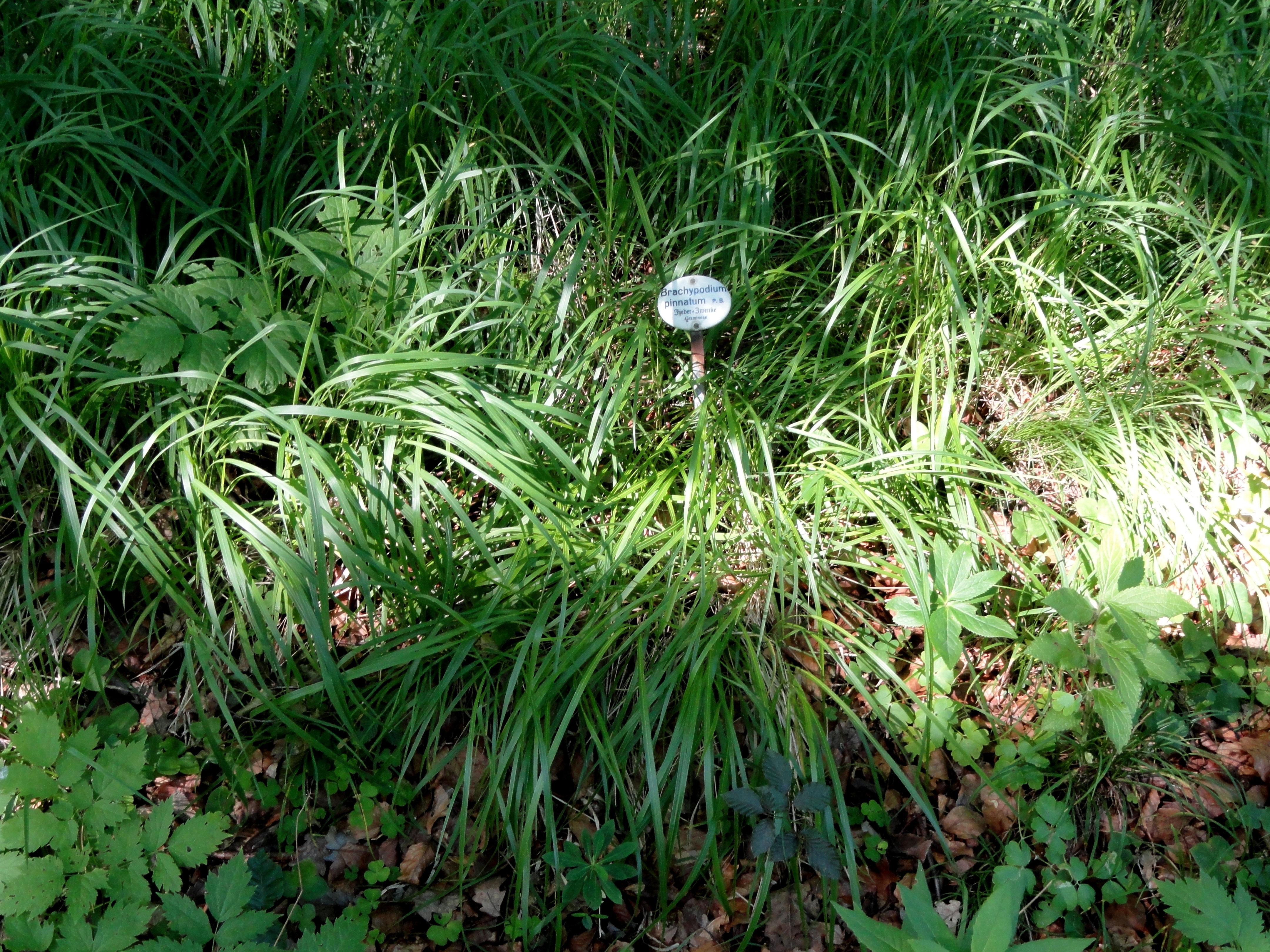 Botanical specimen in the Botanischer Garten, Frankfurt am Main, located at Siesmayerstraße 72, Frankfurt am Main, Germany.